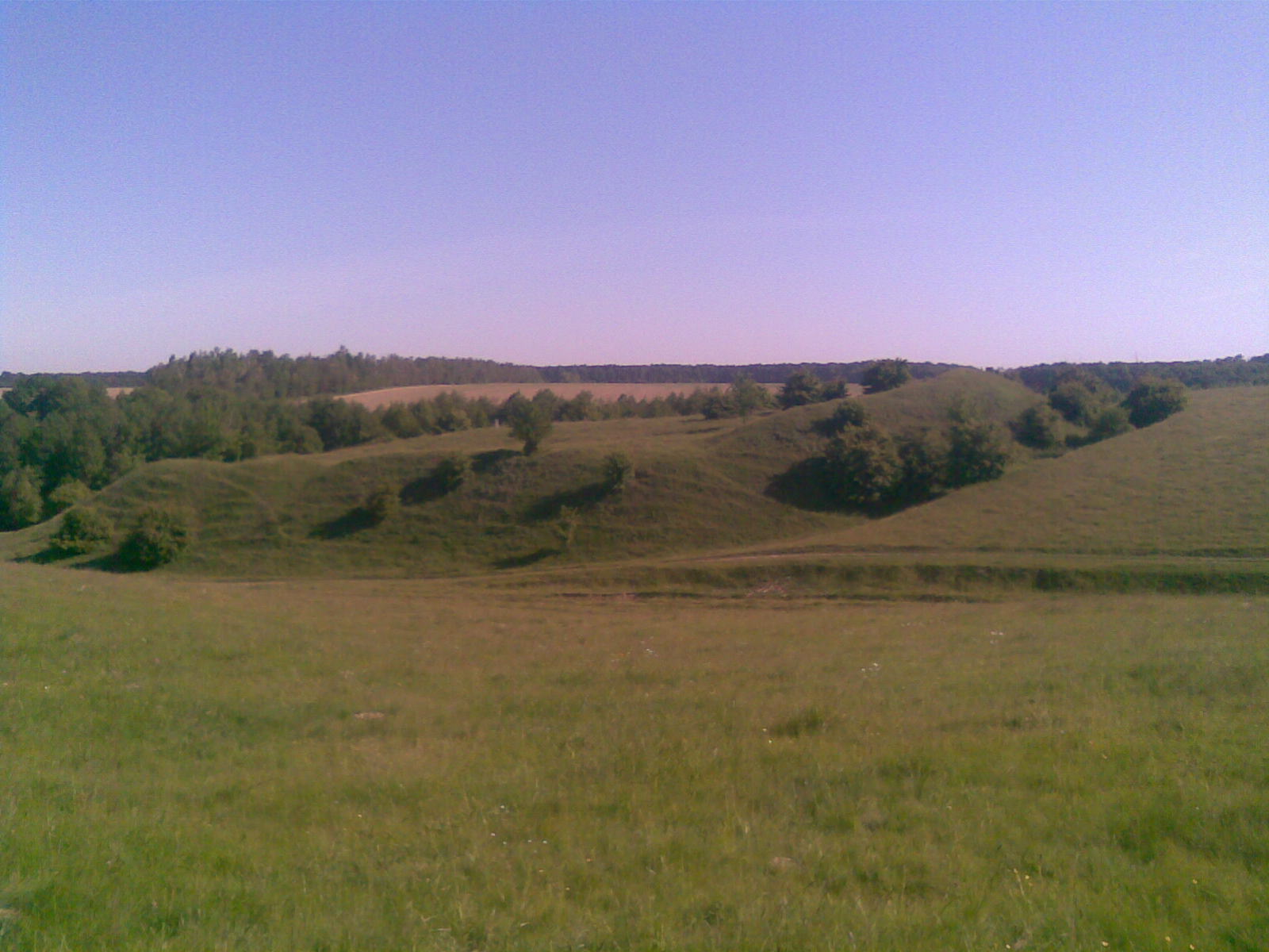 Рельєф с.Мітлинці.